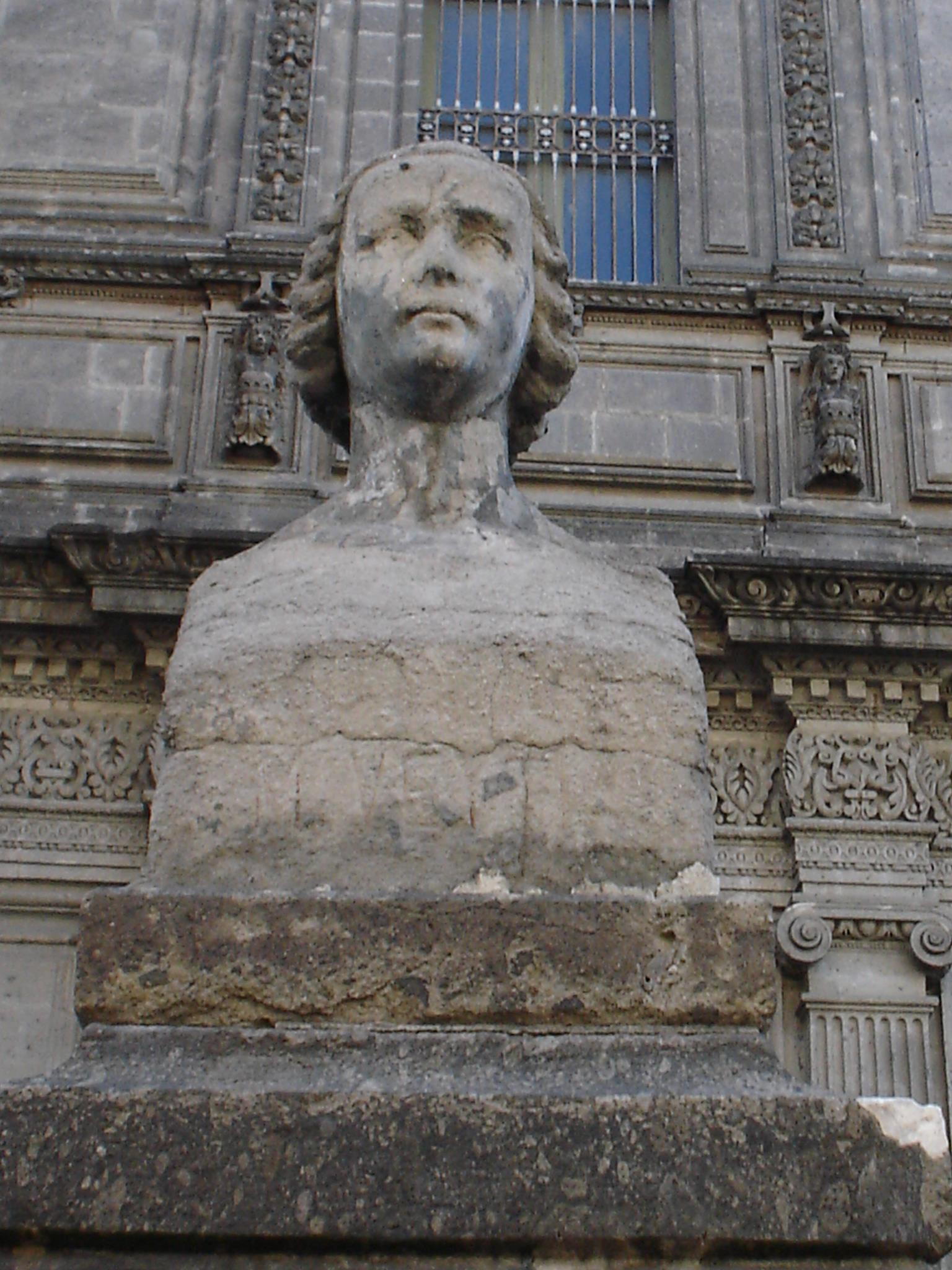 Busto de Mariano Veytia entre Uruguay e Isabel la Católica en la Ciudad de México